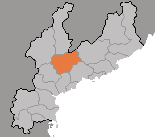 Map of Sinhung, Hamgyong-namdo, DPRK, 2006